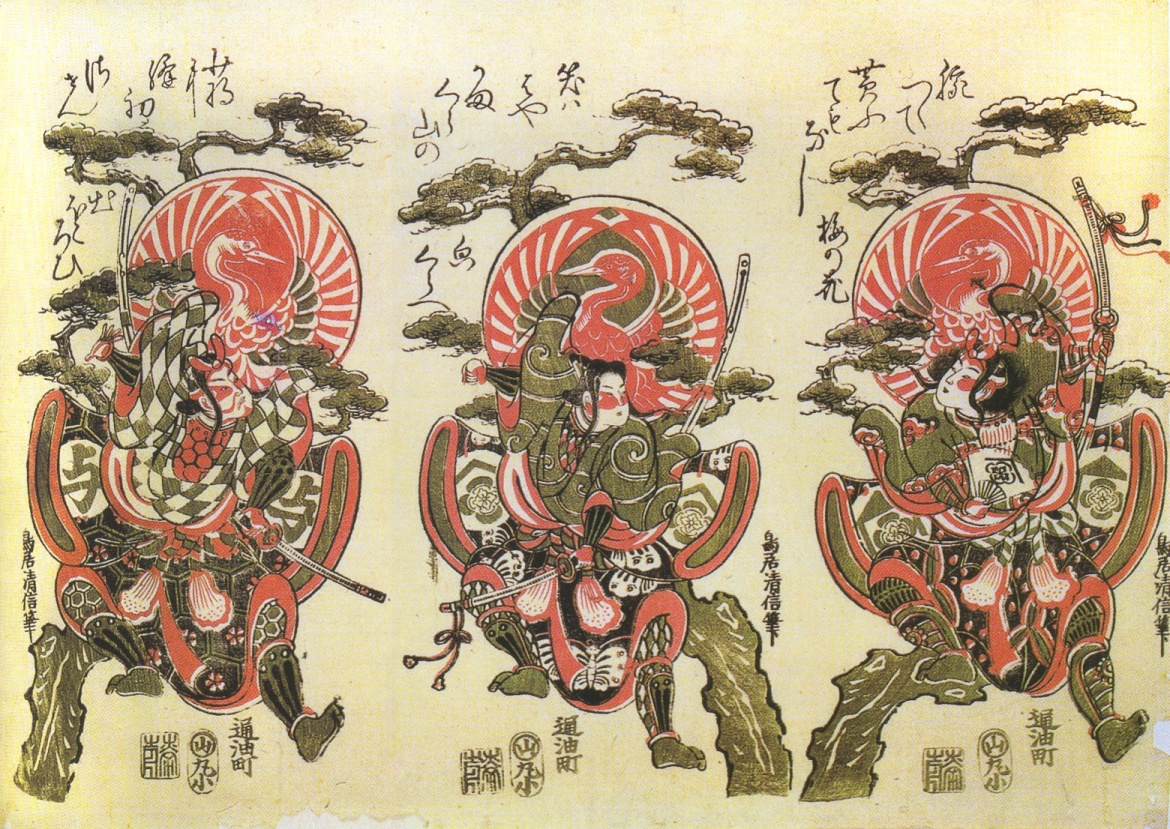 Mitate no Soga: Juro, Goro, and Yoshihide (benizuri-e) by Torii Kiyonobu II